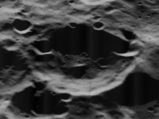 Oblique view of Von der Pahlen, on the far side of the moon, facing west.